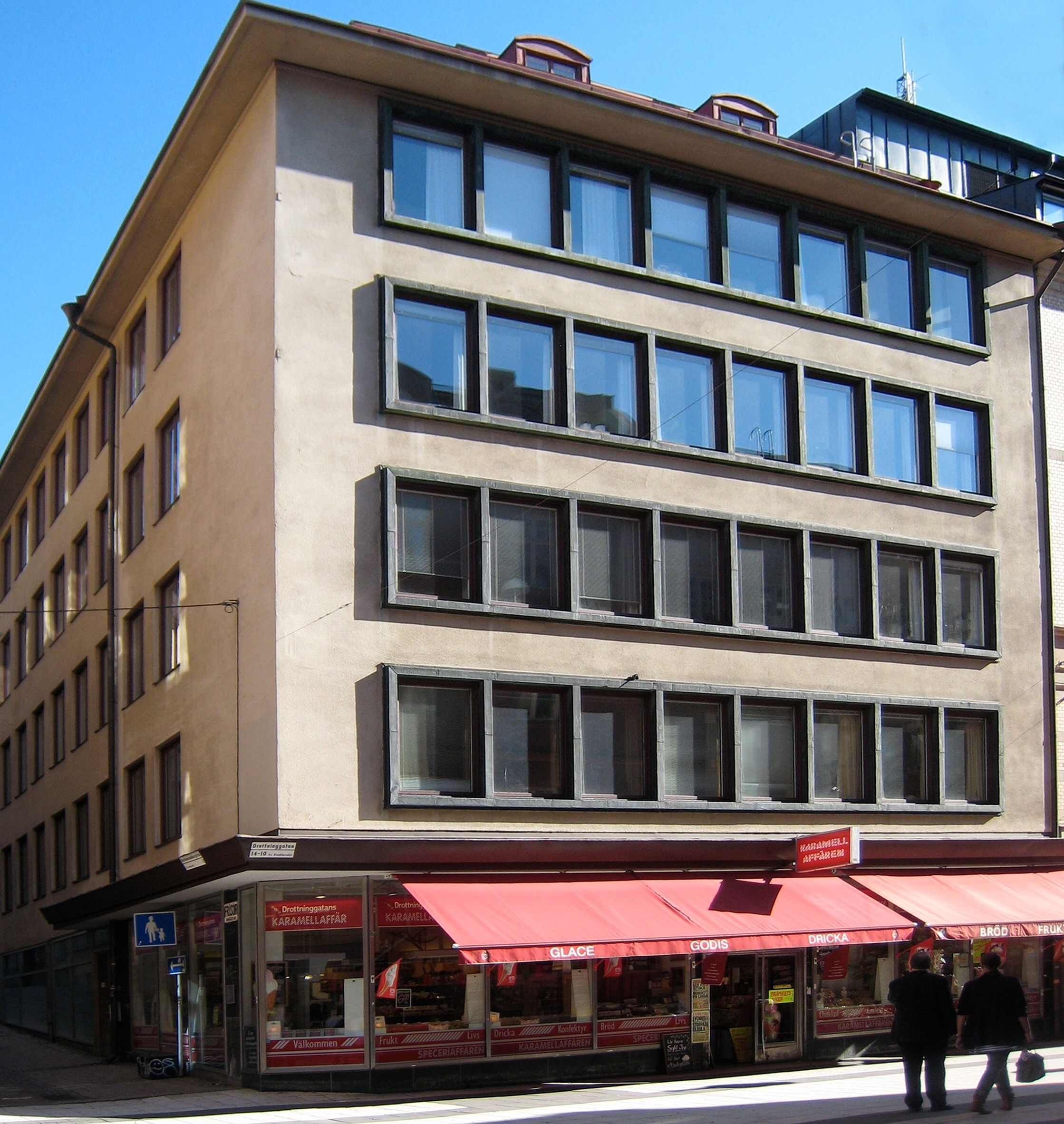 Drottninggatan 14, built 1929 (architect Wolter Gahn)